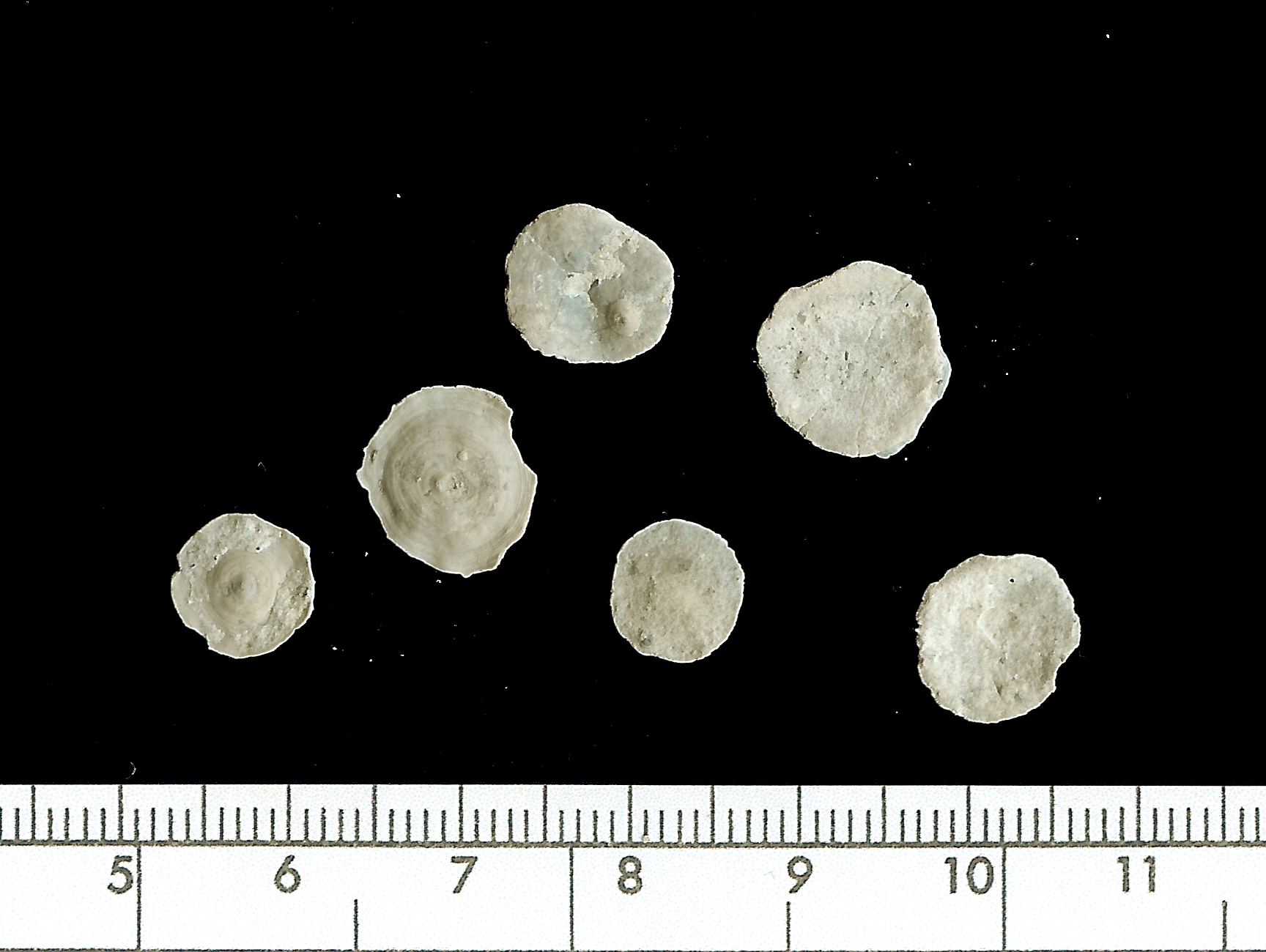 Orbitolina texana (Roemer). Fossil shell of a foramanifera from the Glen Rose Formation (Lower Cretaceous) of Comal County, Texas